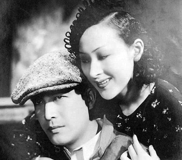 Yumeko Aizome (逢初夢子) and Den Obinata in the 1936 film Machi no ekubo (街の笑くぼ)